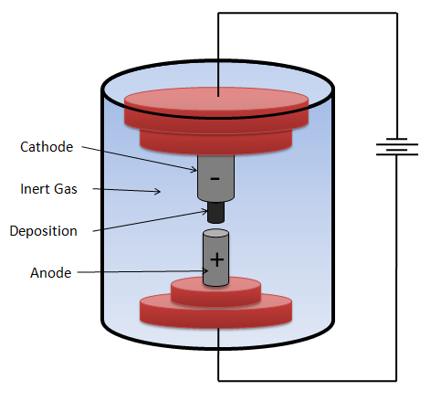 Cartoon showing basic experimental set up of the arc-discharge technique for large scale synthesis of carbon nanotubes